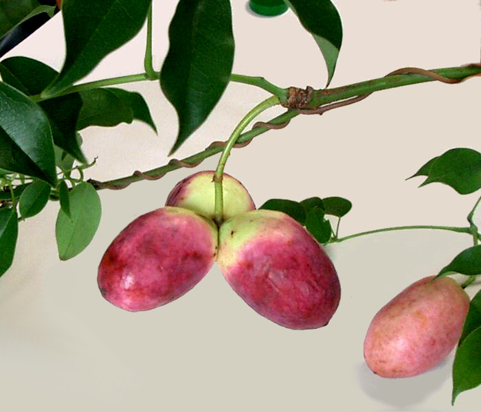 Stauntonia hexaphylla